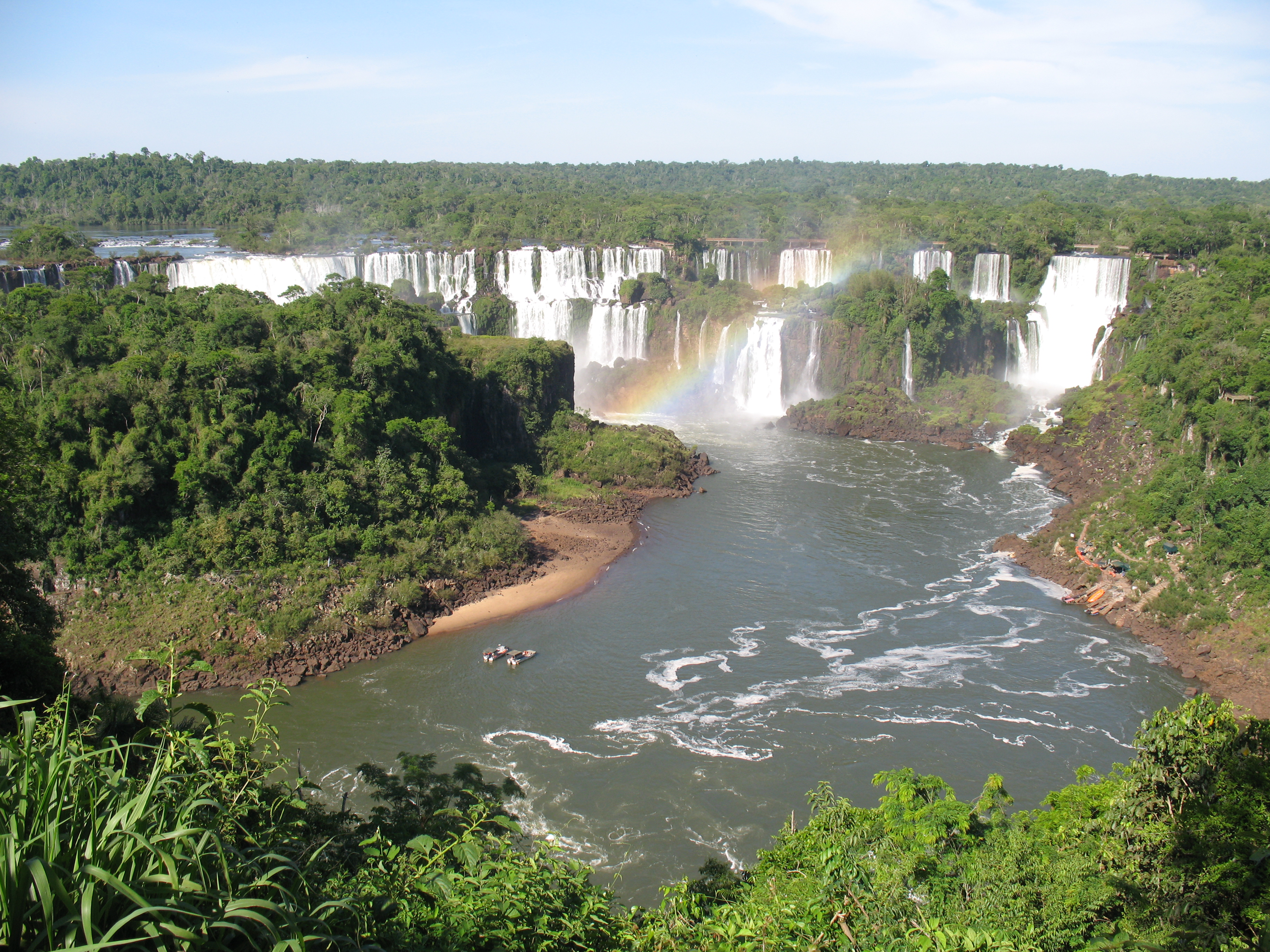 Iguazu Falls, view from the Brazilian side